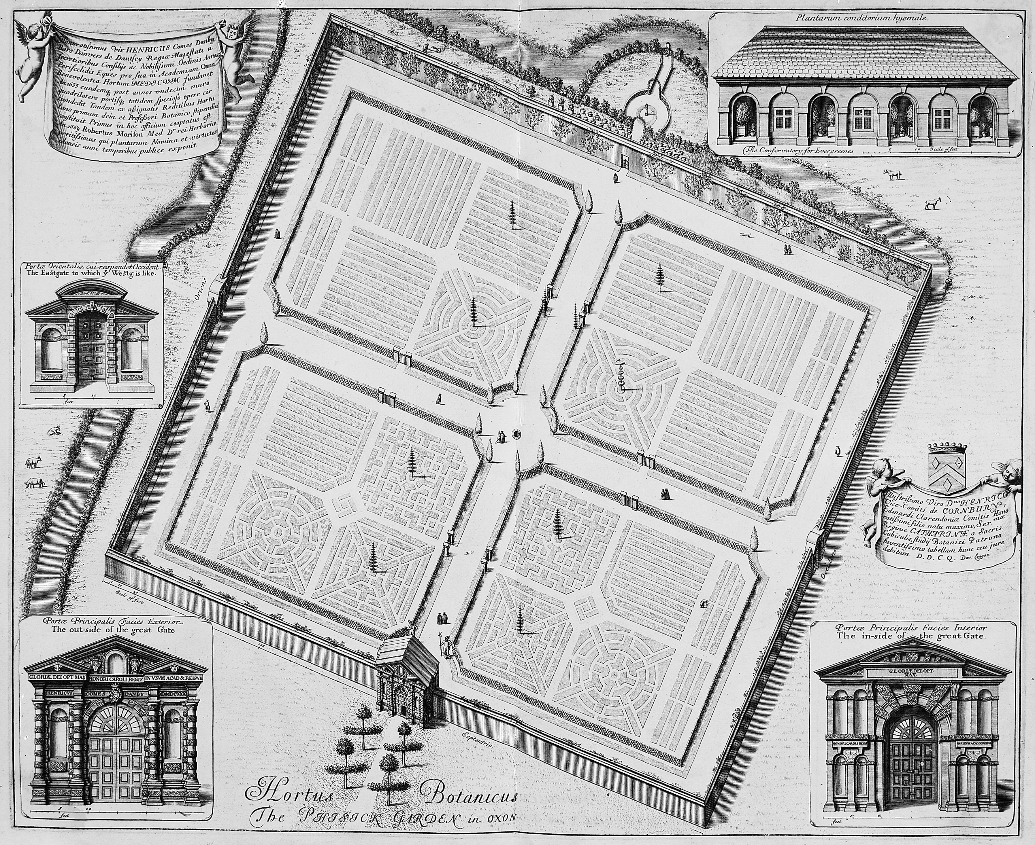 The Botanical Gardens, Oxford Wellcome Images Keywords: oxford; Plants; Institutions; Loggan, David